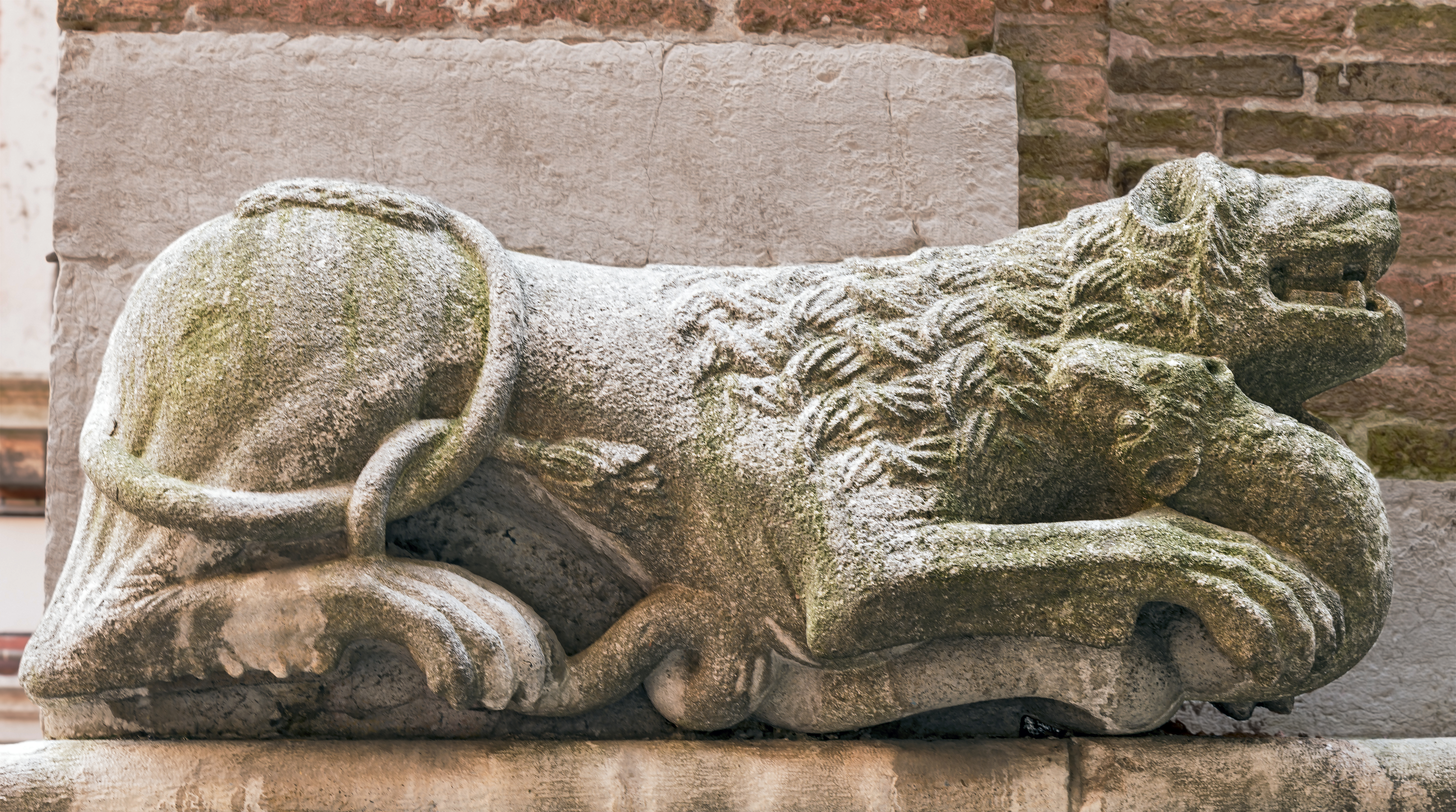 San Polo (church) - Lion (left), roman style twelfth century. Between the legs shaking representation of a human head, to the base of the bell tower of the church of San Polo. Initially it was part of an earlier construction of another building.